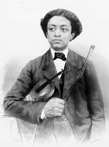 Cuban violinist and composer José White (1836-1918). Shown here after he received the 1st prize for violin at the Conservatoire de Paris in 1856.